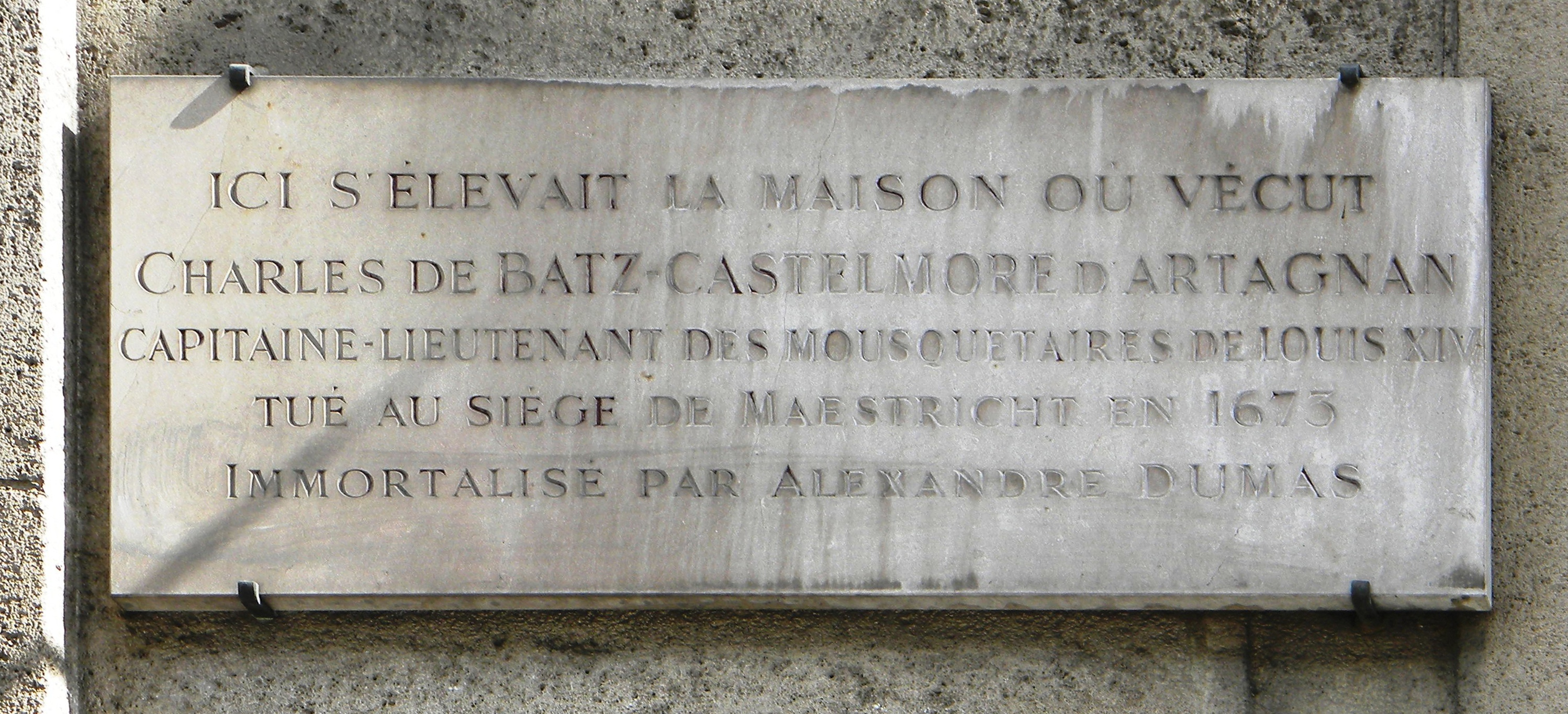 Rue du Bacc, Street where Le Chevalier d'Artagnan (Charles de Batz-Castelmore) lived, Paris